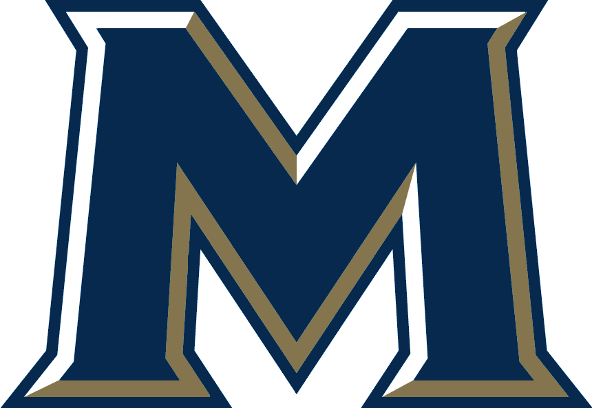 Logo for athletics at Mount Saint Mary's University.